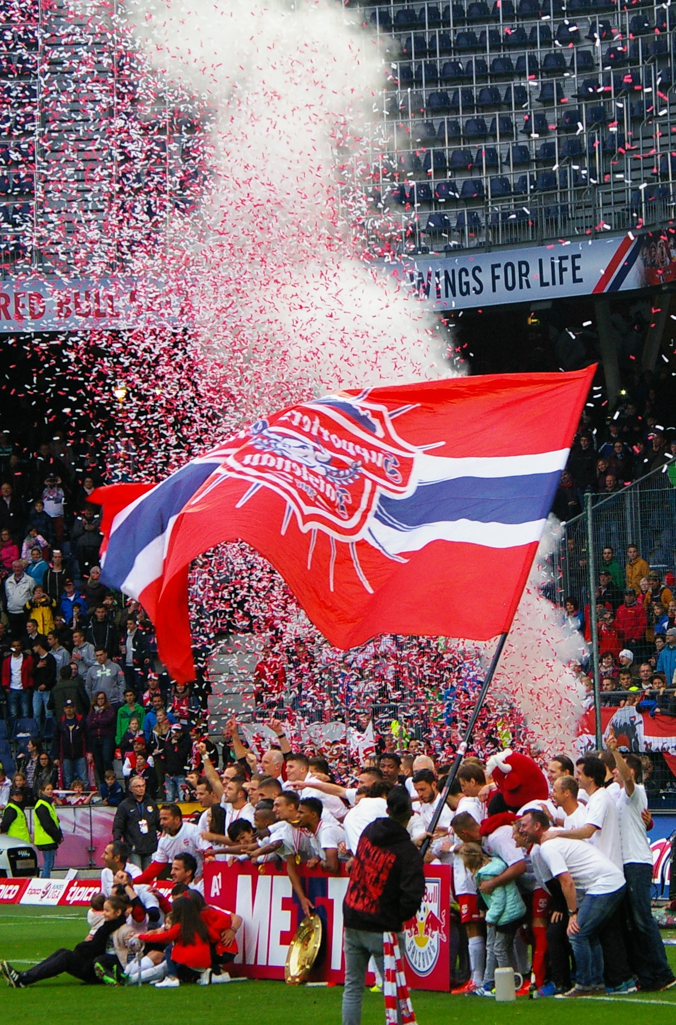 league match Austrian Bundesliga